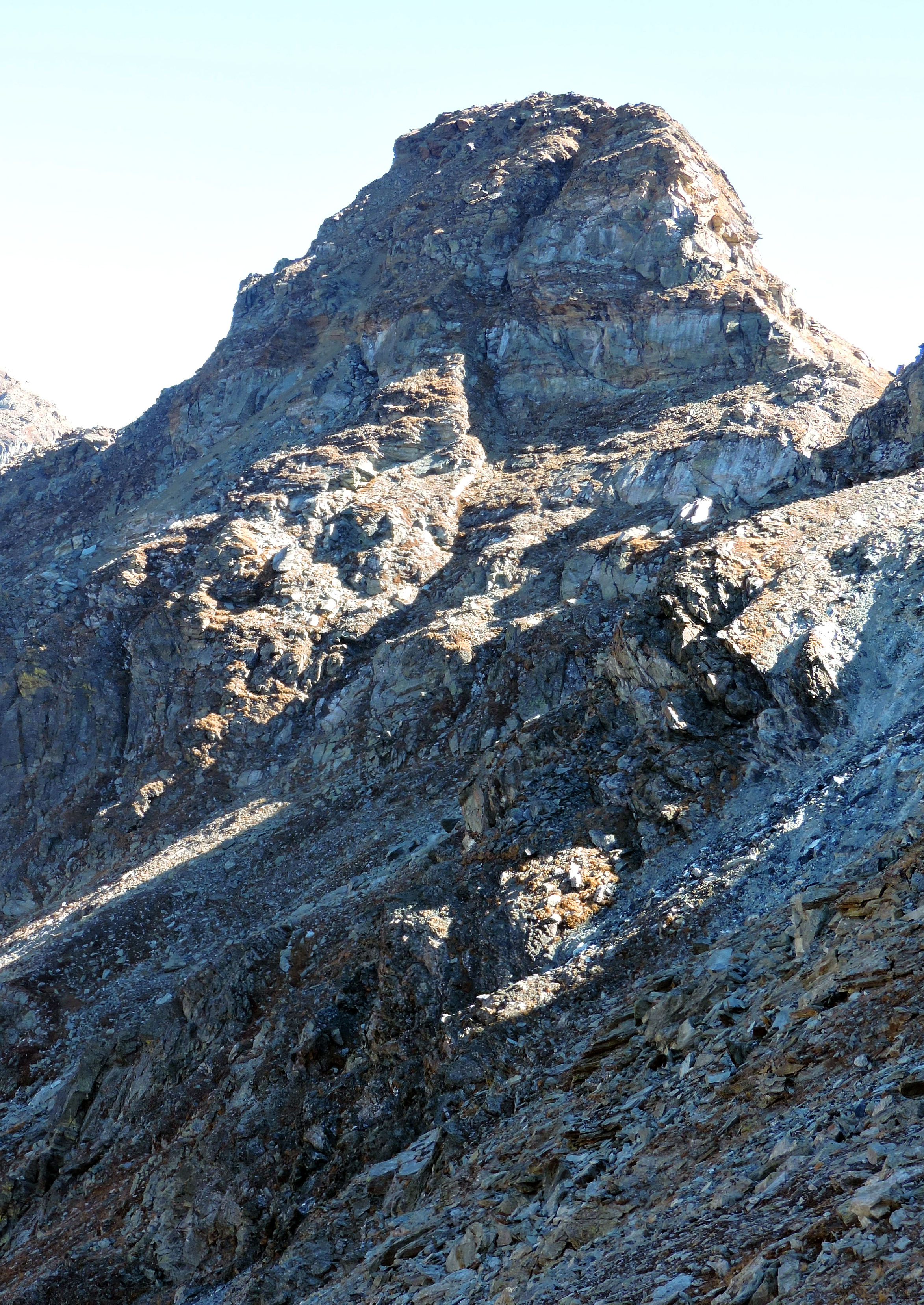 Punta Palasina (AO, Italy) north face